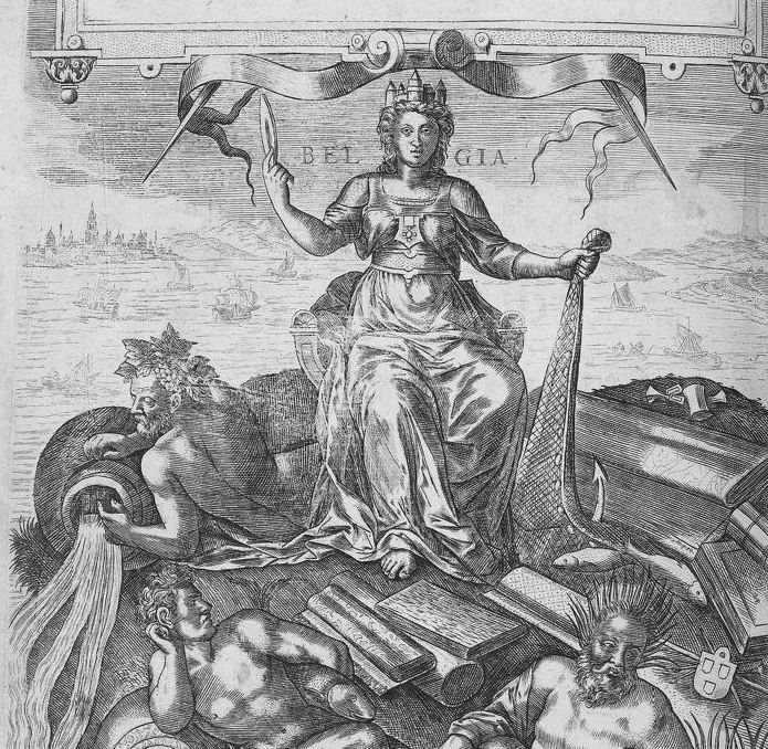 Frontispice, Description of the Low Countreys by Ludovico Guicciardini (Italian Edition)